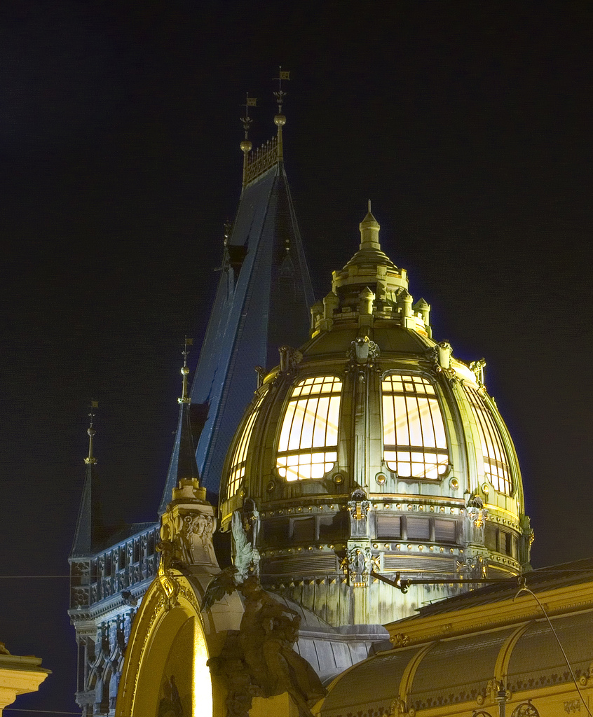 Large On Black